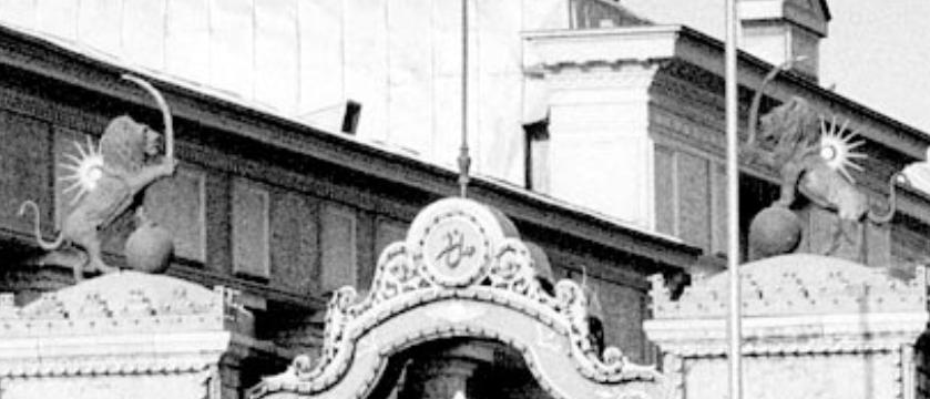 The entrance gate of Iranian Parliament in early 20th century